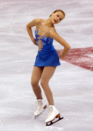 Jenni Vahamaa at the 2008 Skate Canada.